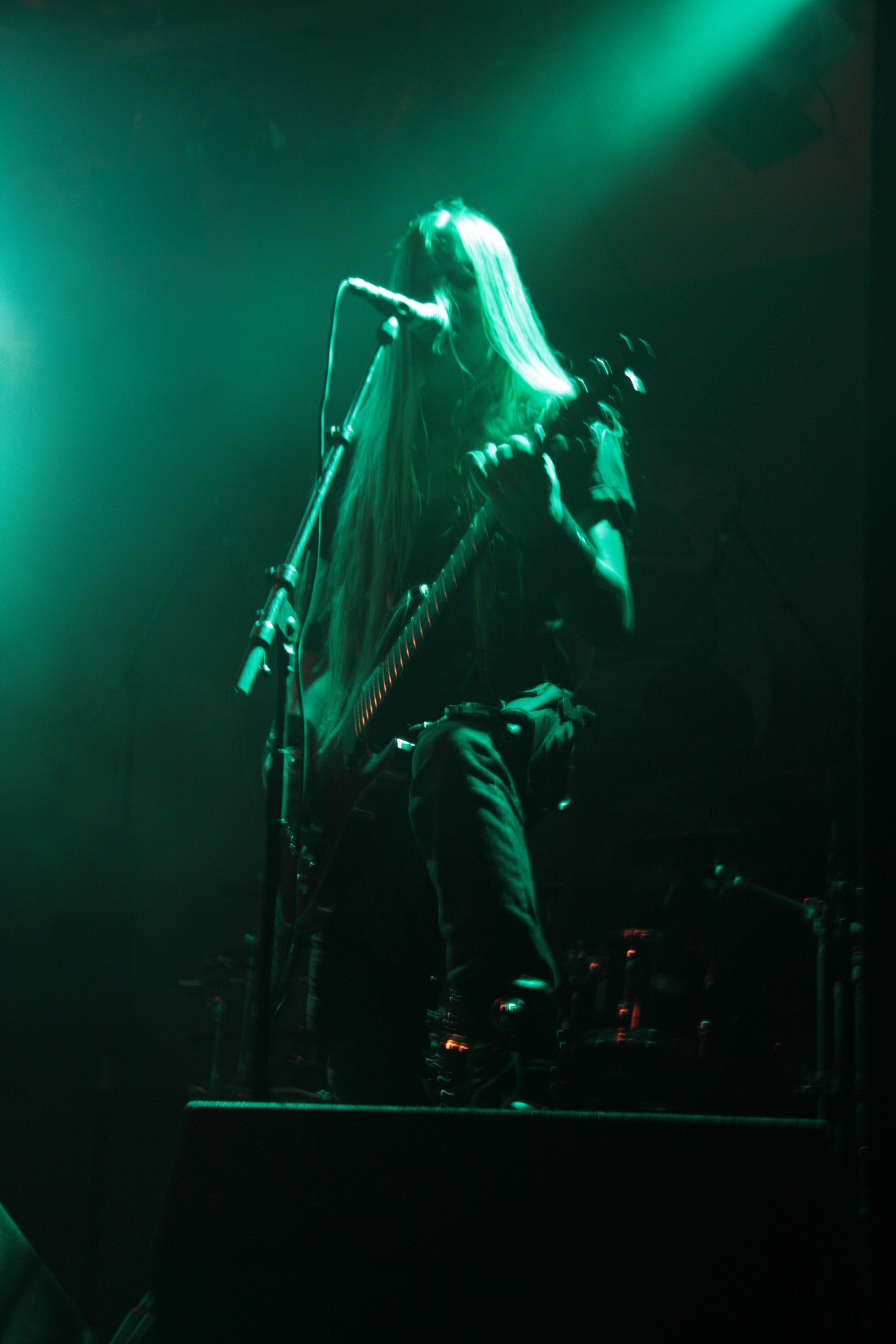 Zonaria on Occultfest 2010, friday september 3rd